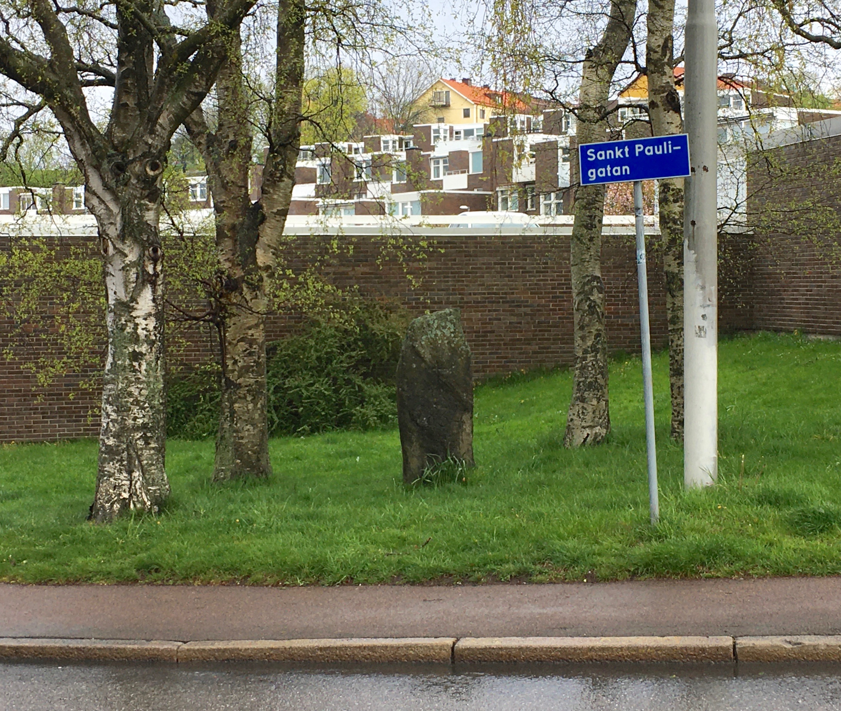 The cholera graveyard in Lunden, Gothenburg, established in 1834. Begravningsplats, L1969:688. Minnesmärke, L1969:687.